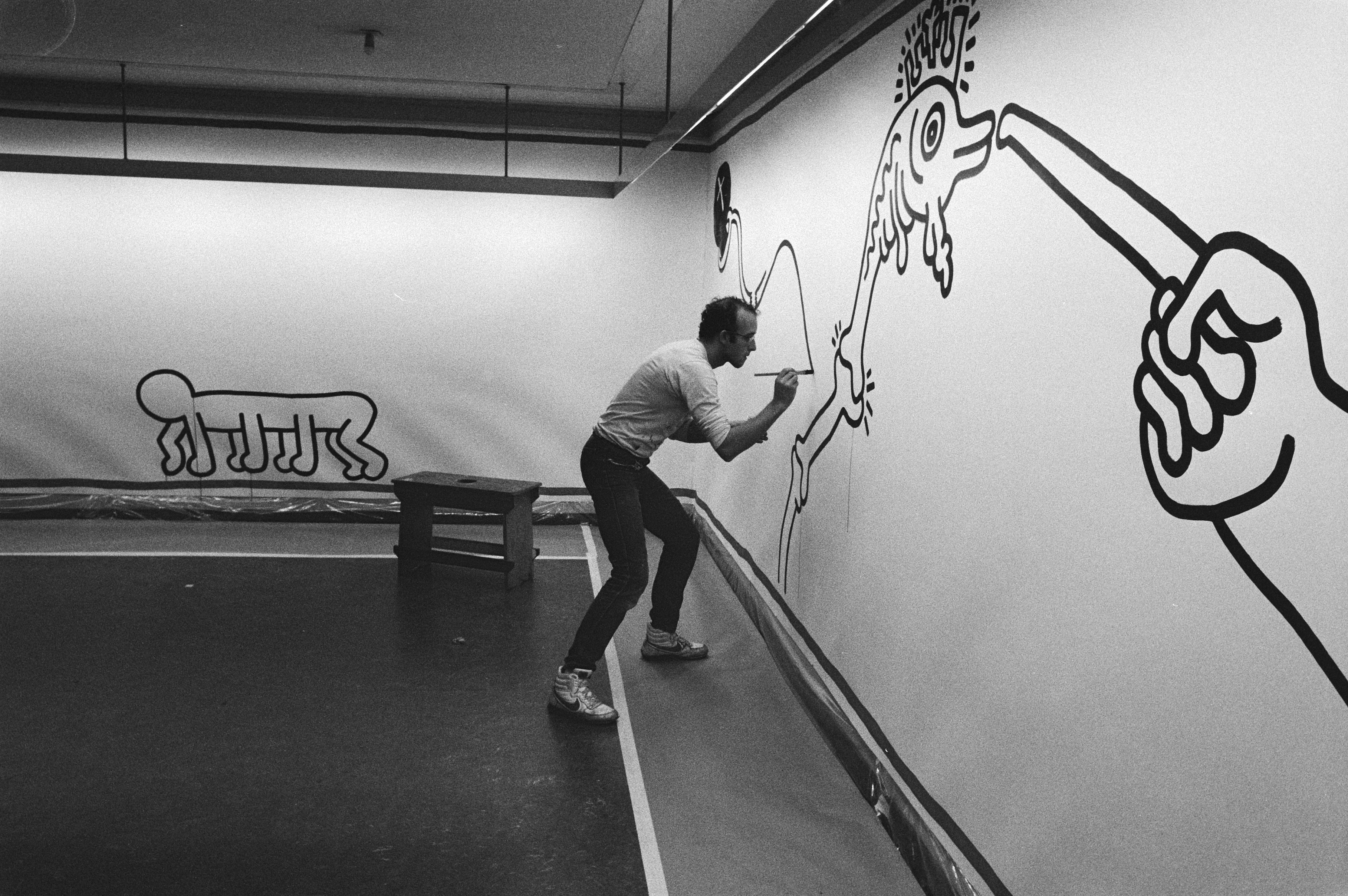 Keith Haring at work in the Stedelijk Museum in Amsterdam